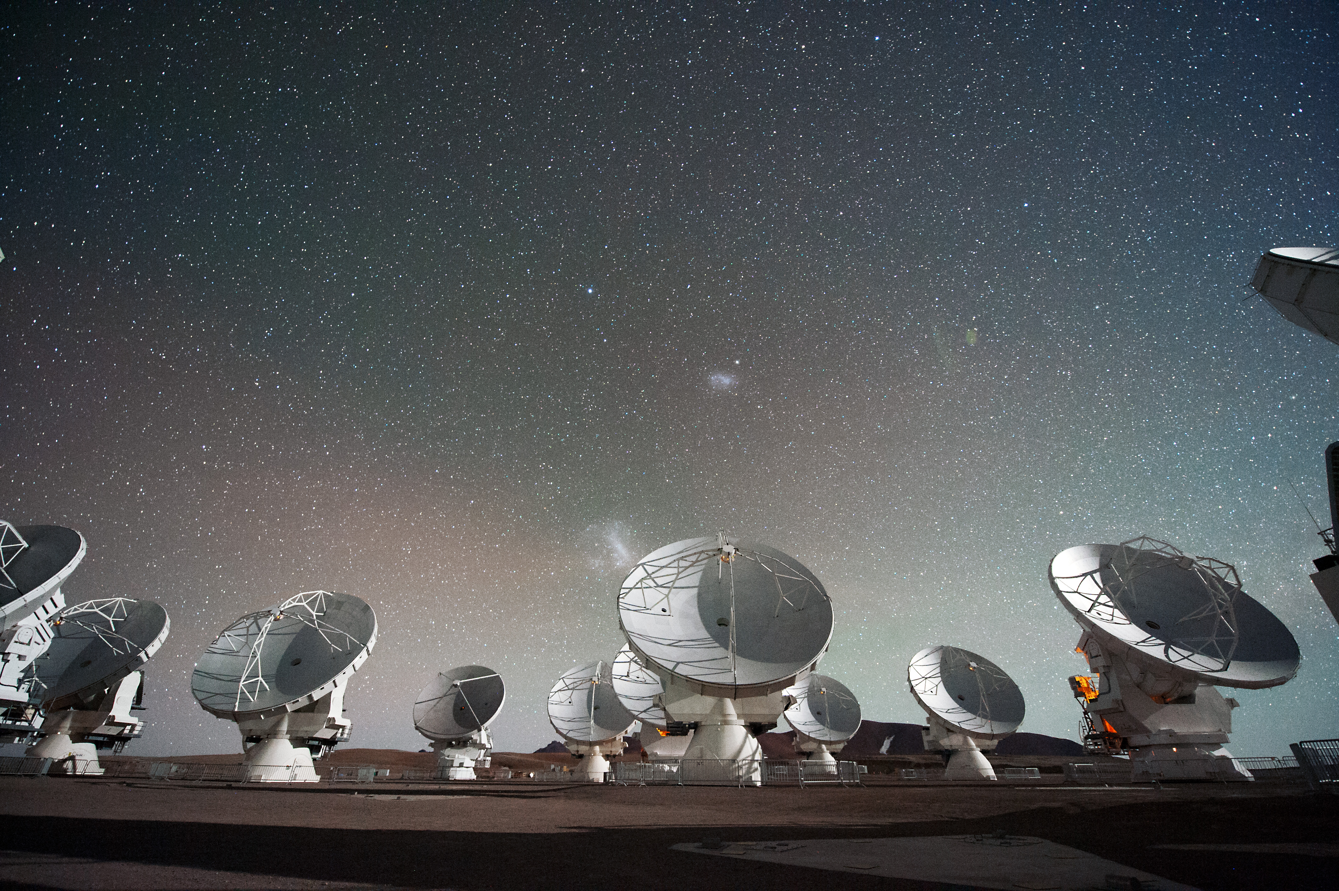 Antennas of the Atacama Large Millimeter/submillimeter Array (ALMA), on the Chajnantor Plateau in the Chilean Andes. The Large and Small Magellanic Clouds, two companion galaxies to our own Milky Way galaxy, can be seen as bright smudges in the night sky, in the centre of the photograph.